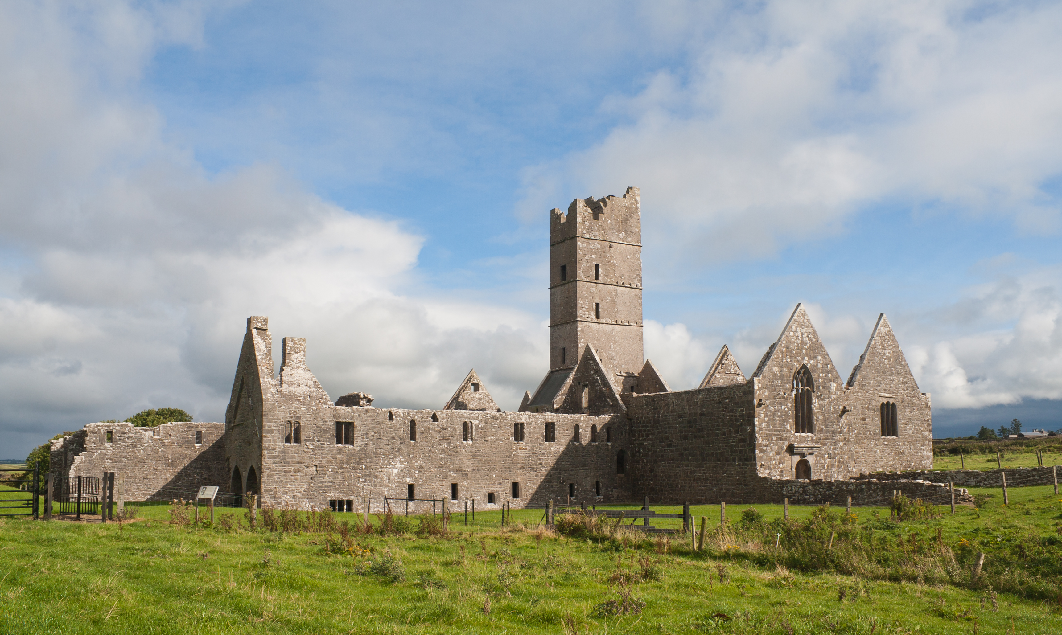 West range of Moyne Friary with domestic buildings on the left, the tower, the nave, and an attached chapel or south aisle with its own gable.